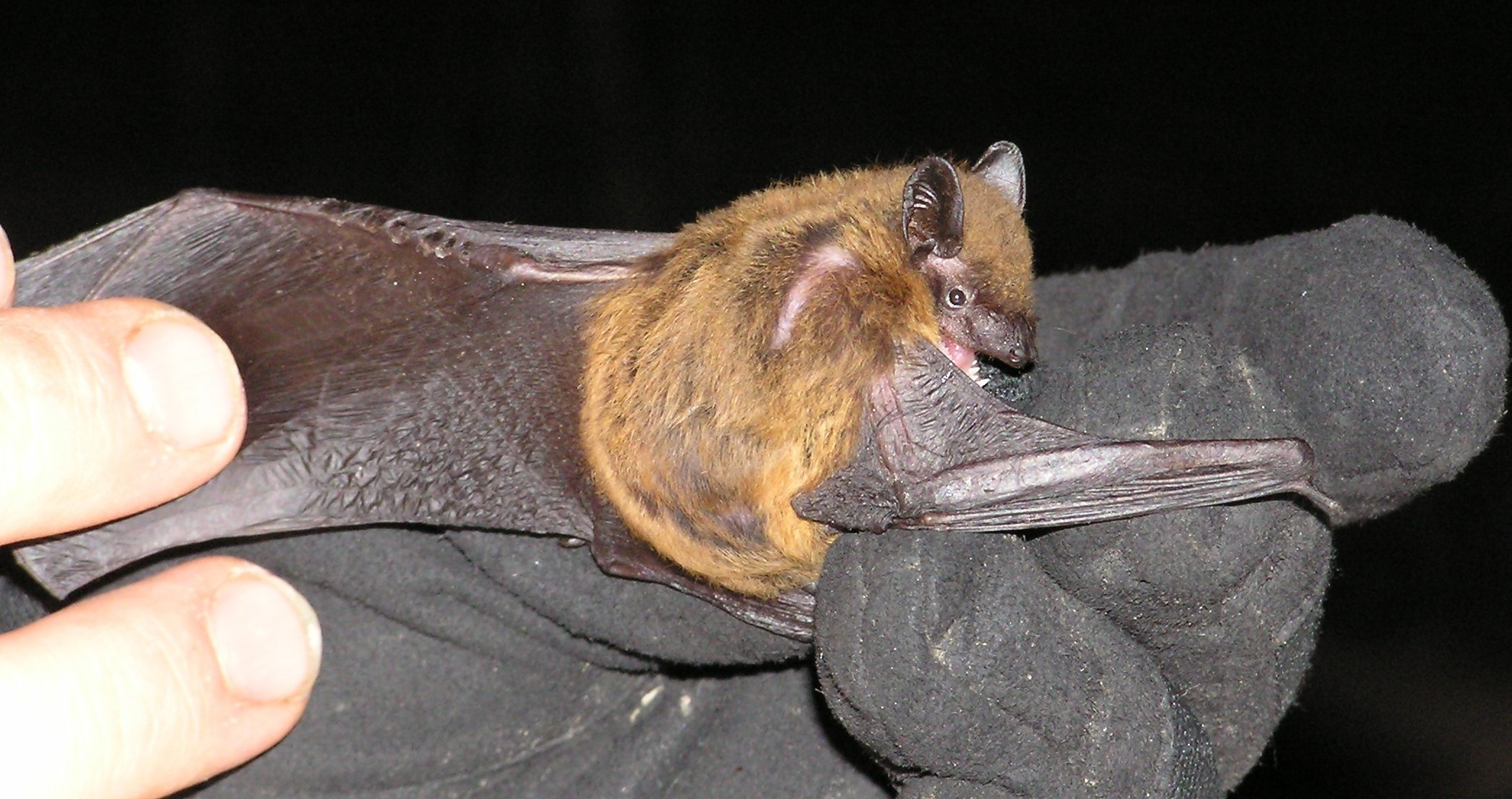 Crop of file in filename